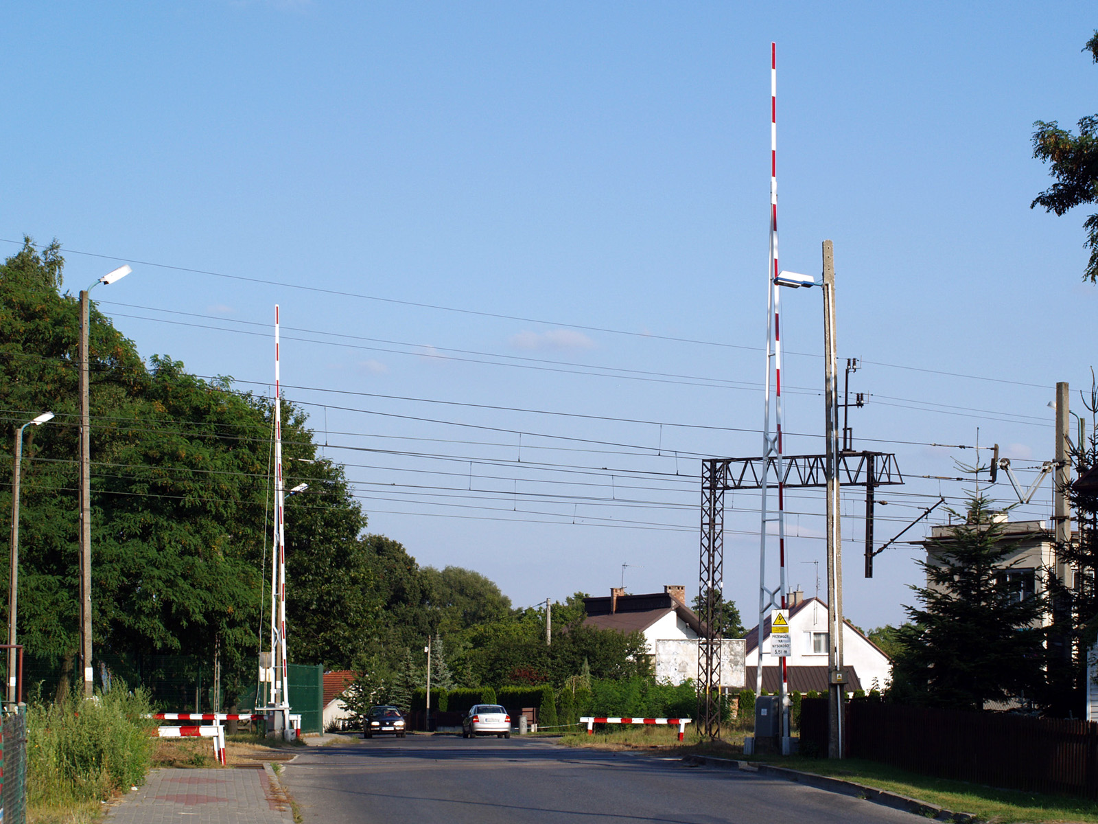 Level crossing in Leżajsk